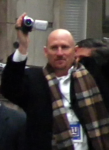 Jeff Feagles at the Giants parade in Manhattan the Tuesday following the Giants victory in Super Bowl XLII.